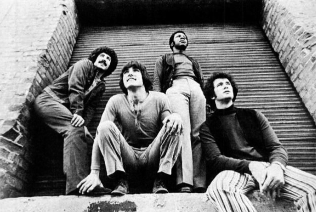 Trade ad for ABC / Dunhill Records featuring Shango. To better adapt it to his respective Wikipedia article, the ad was cropped and cleaned in a graphics editing program. The original can be viewed at the source below.